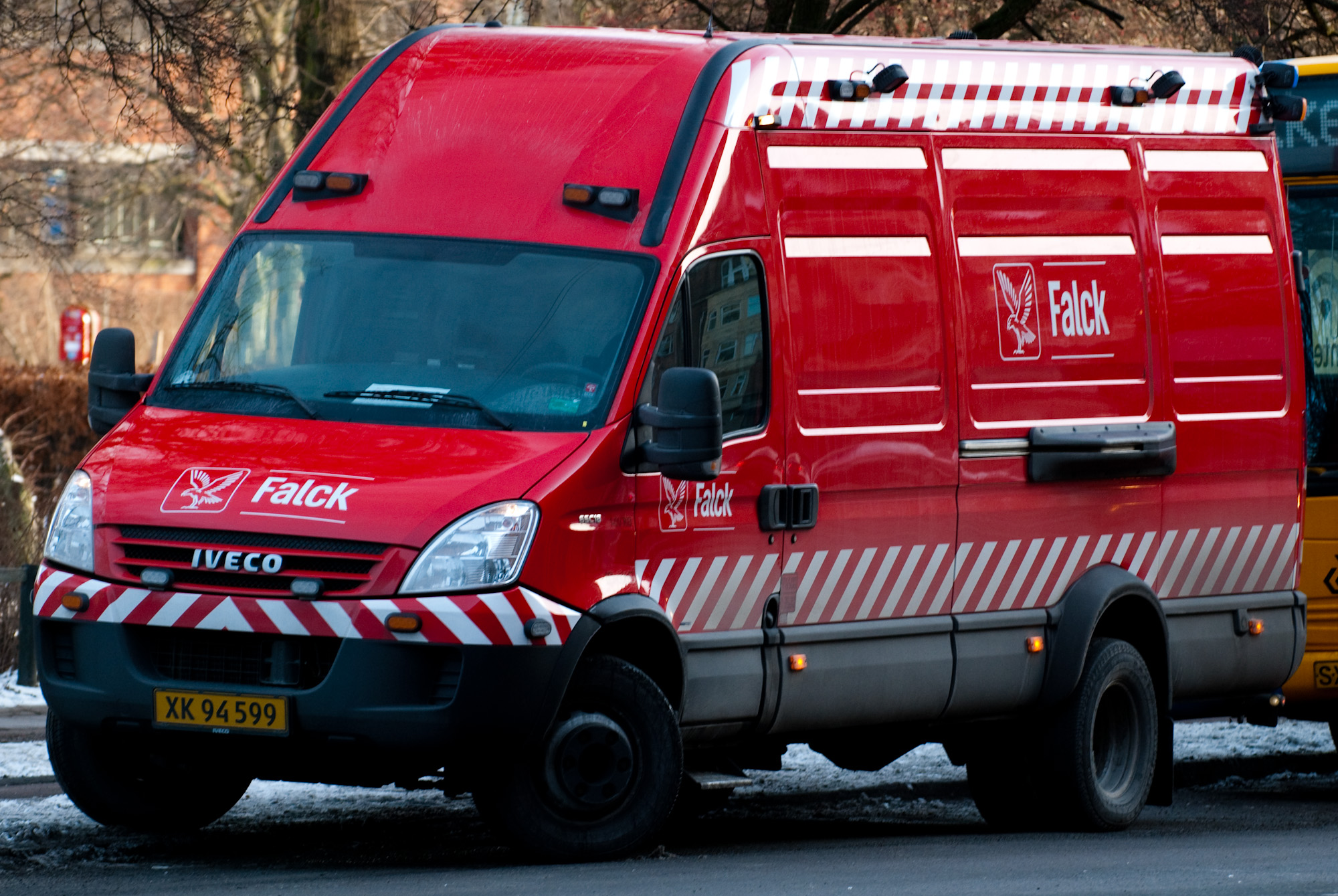 A roadside assistance van (Iveco Daily 65C18) by Danish private contractor Falck.